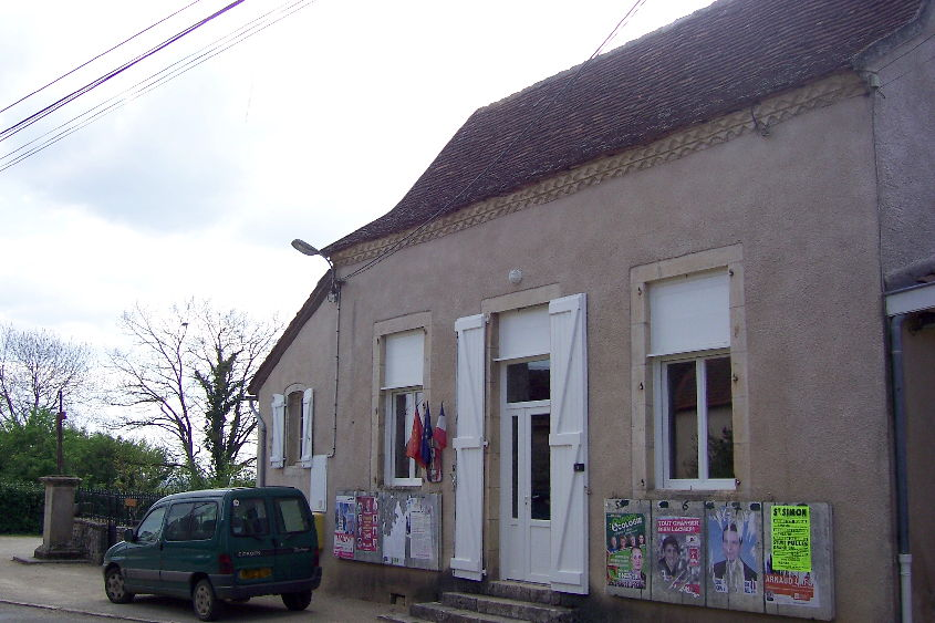 Townhall of town Sonac in Lot department in France.